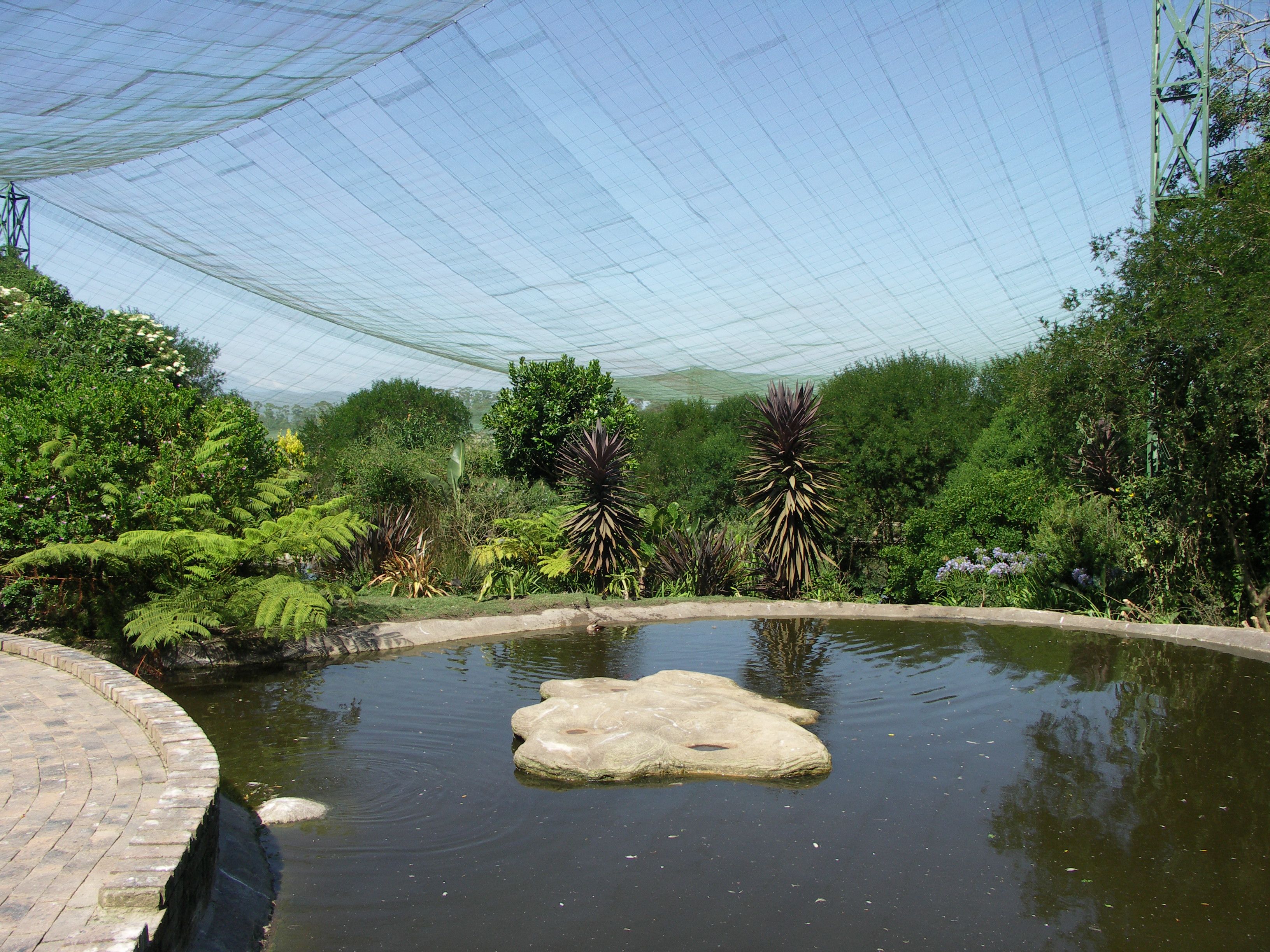 Portion of the Birds of Eden Aviary. Western Cape, South Africa